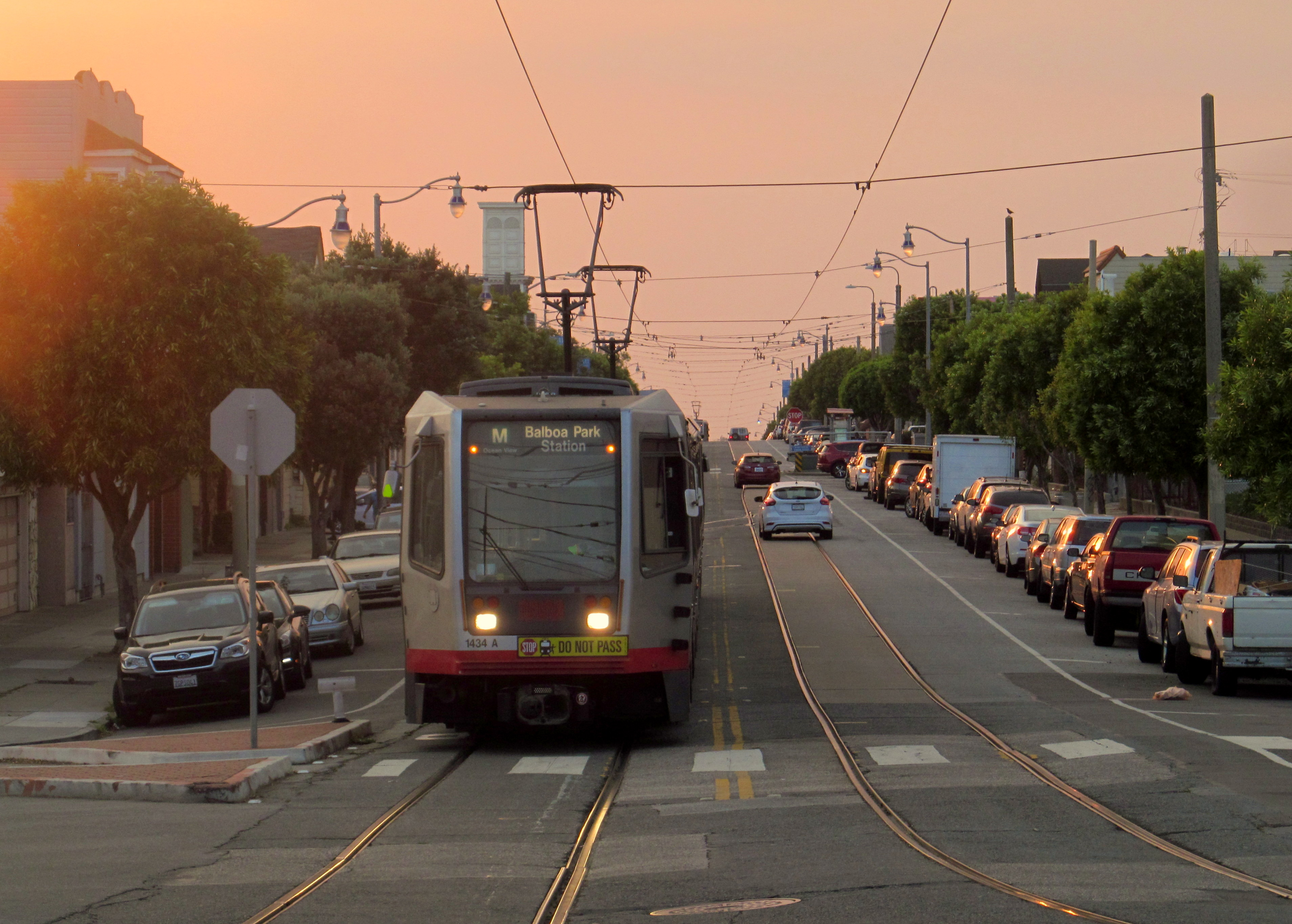 An outbound M Ocean View train on Broad Street approaching San Jose Avenue in October 2017